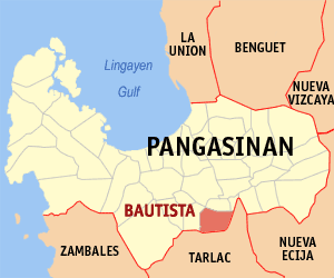 Map of Pangasinan showing the location of Bautista